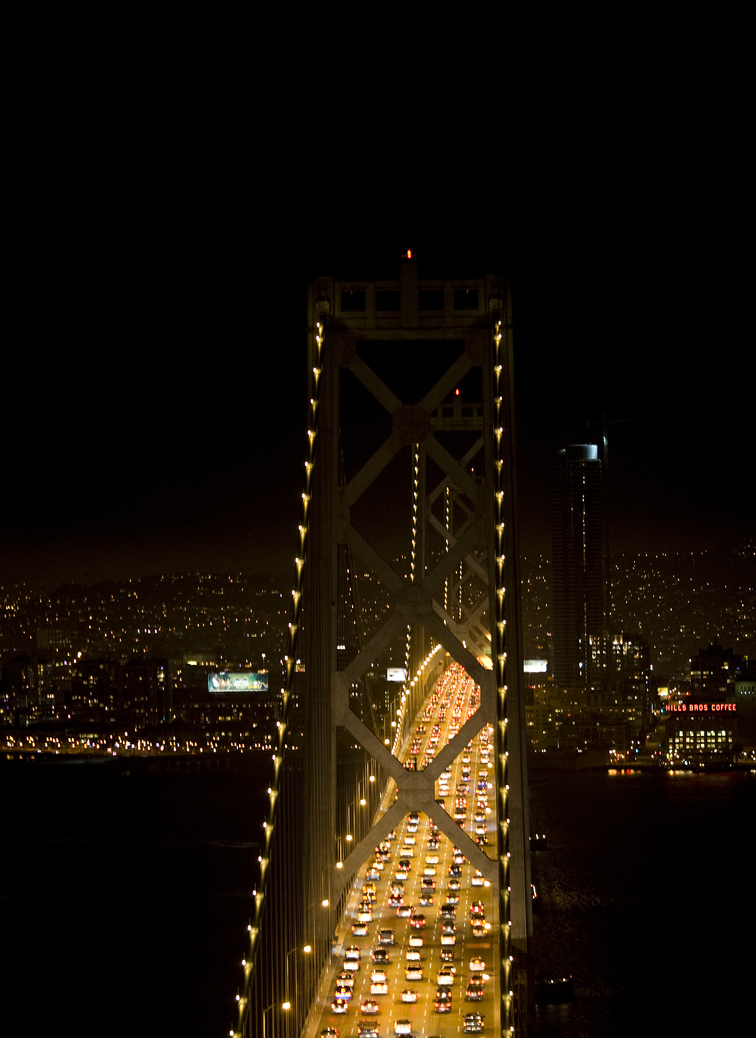 Shot of the San Francisco Bay Bridge upper section, location of the fictional Skinner's Room.